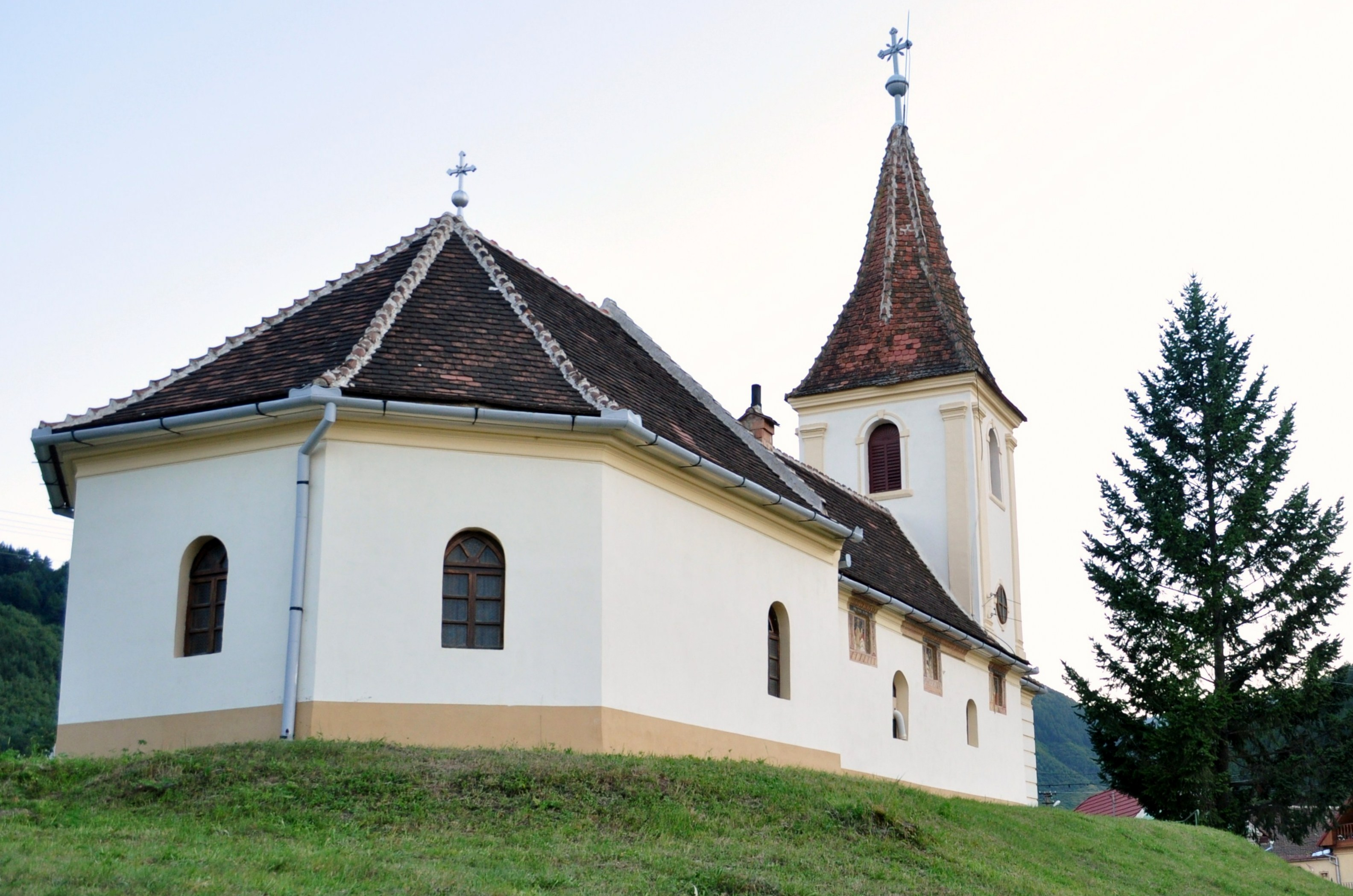 The orthodox church of pious St.Paraschiva in Gura RâuluiRomână: Biserica ortodoxă Cuvioasa Paraschiva din Gura Râului